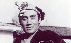 Ryūtarō Ōtomo in 1947 Japanese movie Tenka no goikenban wo ikensuru otoko(The man who advices on an opinion leader under the sun）.